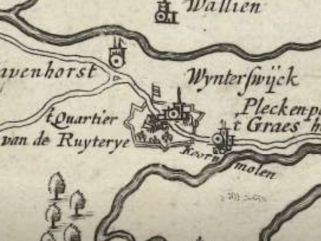 Part of the map "Kaart van graafschap Zutphen, 1627", from Winterswijk